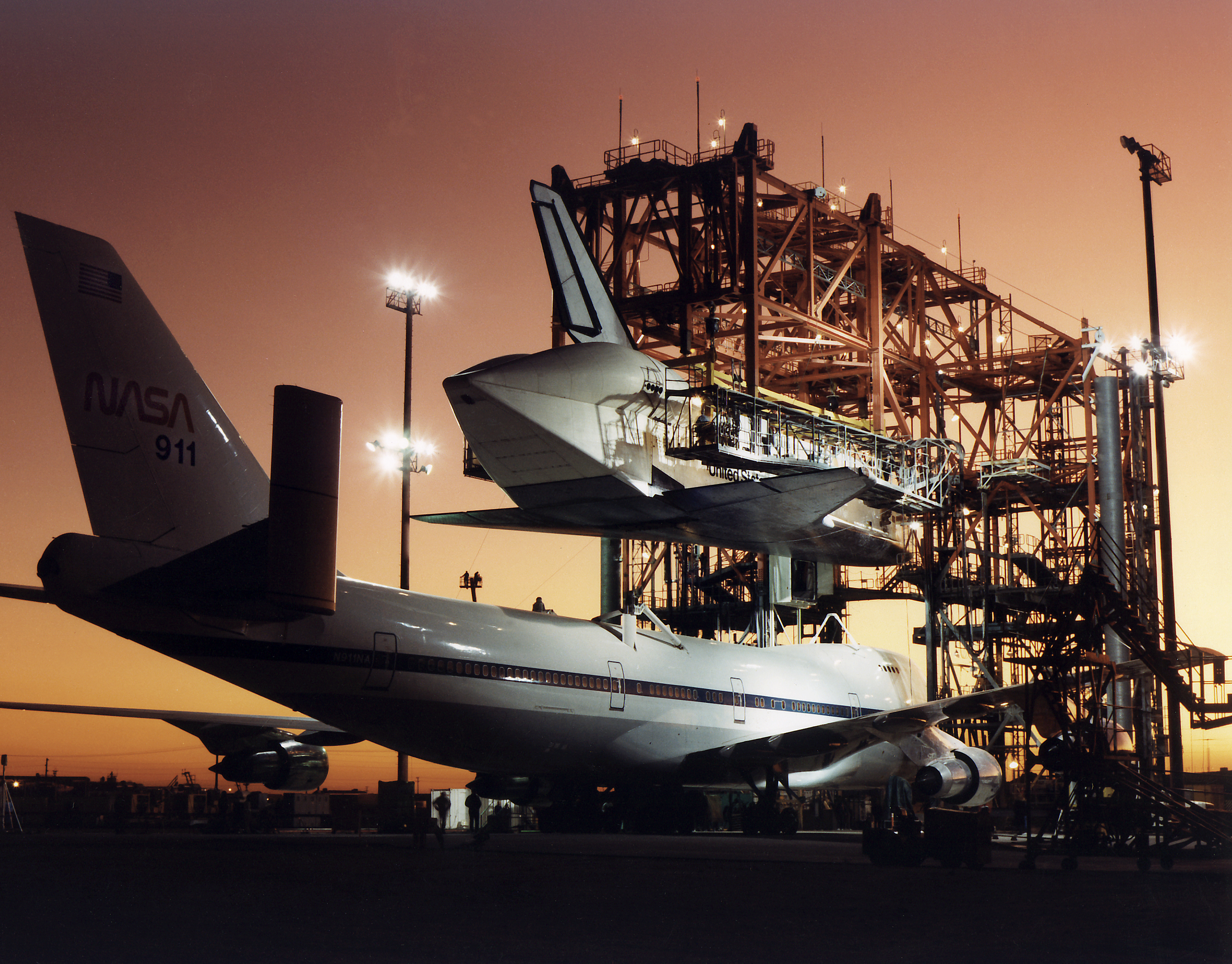 Evening light begins to fade at NASA's Ames-Dryden Flight Research Facility (later redesignated Dryden Flight Research Center), Edwards, California, as technicians begin the task of mounting the Space Shuttle Atlantis atop NASA's 747 Shuttle Carrier Aircraft (NASA #911) for the ferry flight back to the Kennedy Space Center, Florida, following its STS-44 flight 24 November-1 December 1991. Post-flight servicing of the orbiters, and the mating operation, is carried out at Dryden at the Mate-Demate Device (MDD), the large gantry-like structure that hoists the spacecraft to various levels during post-space flight processing and attachment to the 747.